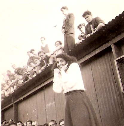 Shoshana Damari appears in the DP camps in Cyprus